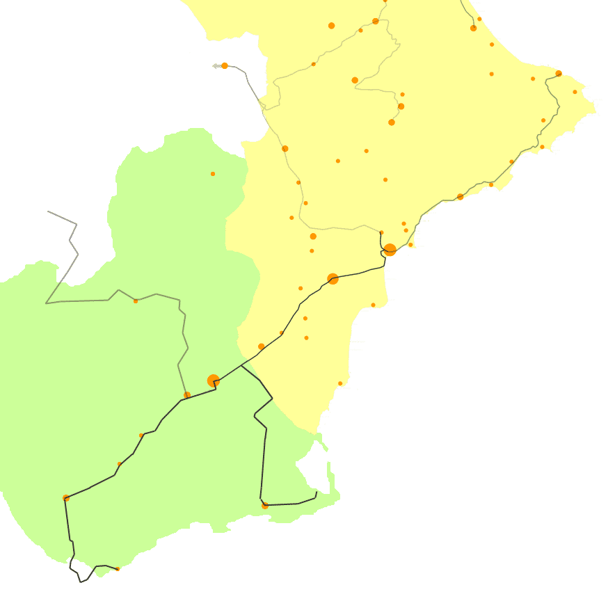 Map of Alicante Murcia local train services with respect to the Murcia Alicante conurbation.